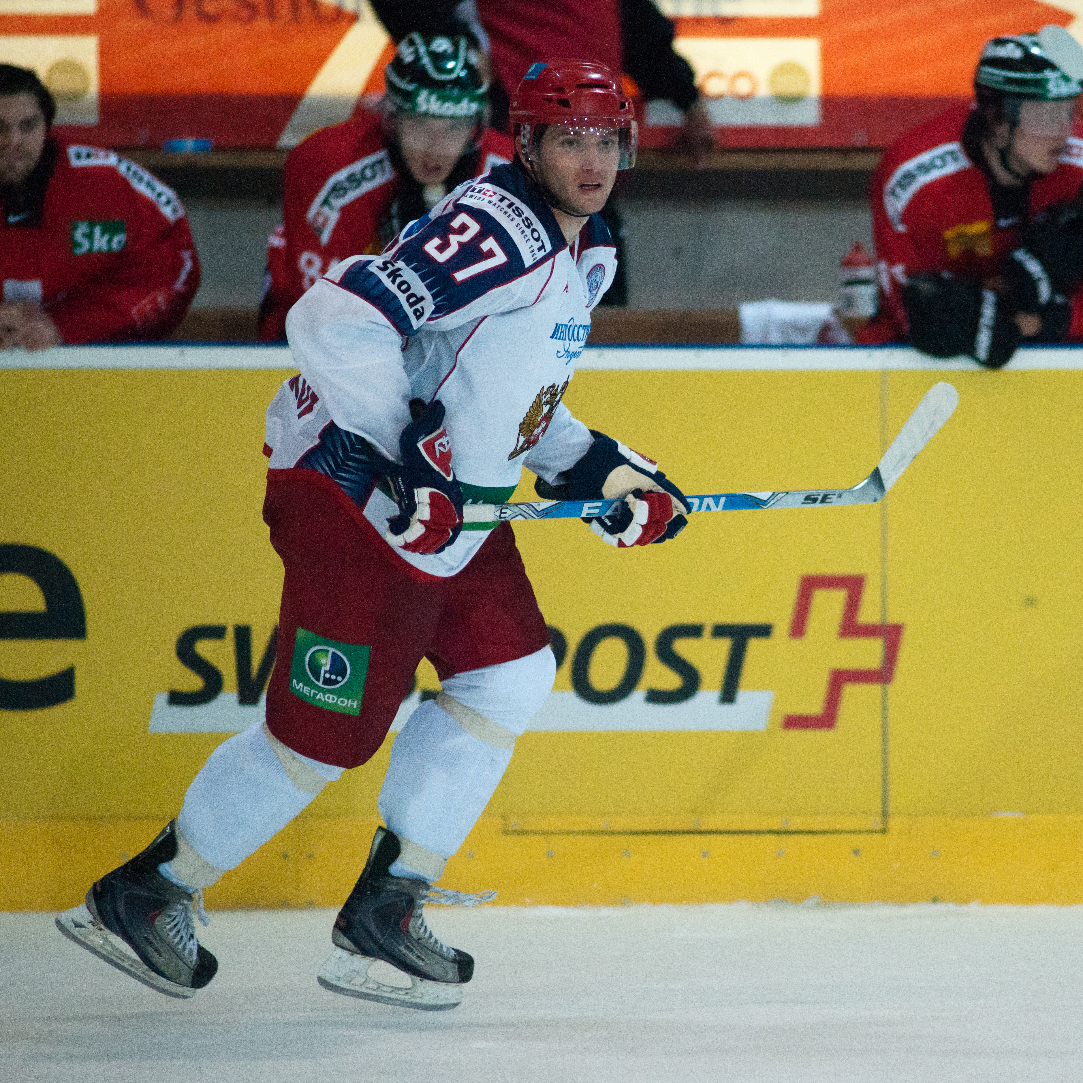 The making of this document was supported by Wikimedia CH. (Submit your project!) For all the files concerned, please see the category Supported by Wikimedia CH. Switzerland vs. Russia, 8th April 2011